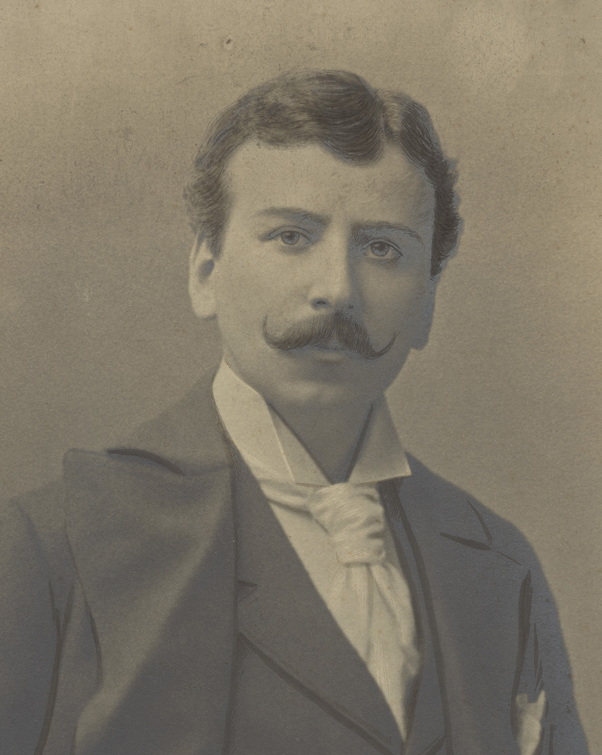 Portrait of Alfredo Edel, designer (1856-1912). Photo by unknown, n.d., before 1912.